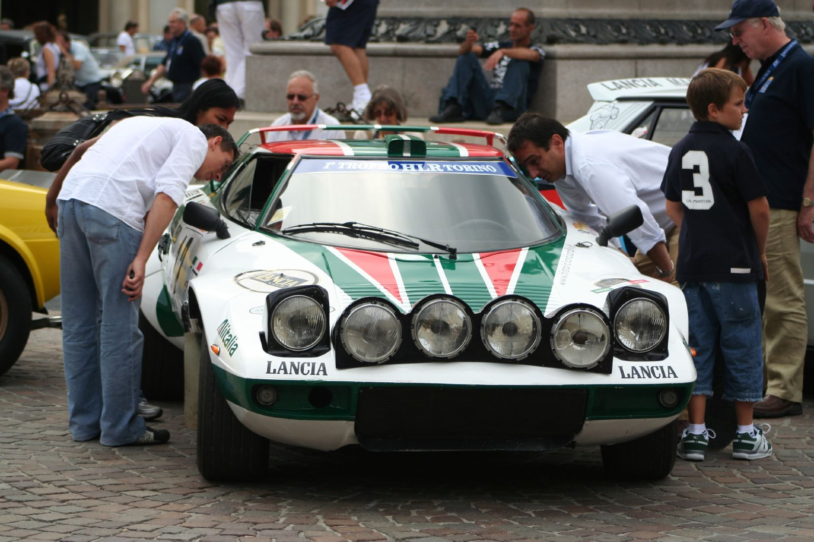 Lancia Stratos HF at the Lancia centenary celebrations in Turin in 2006.